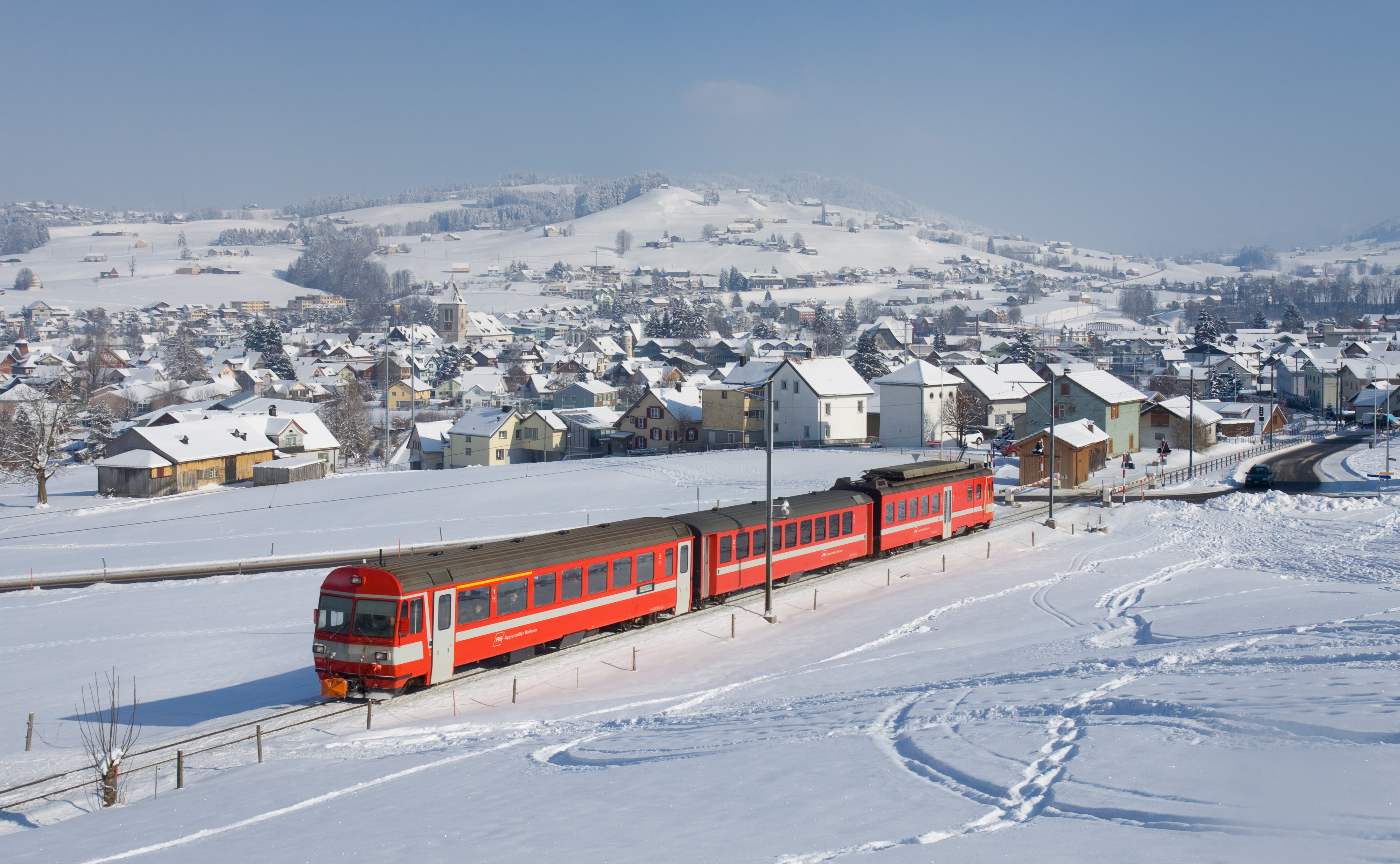 An Appenzeller Bahnen push-pull train (ABt-B-BDe 4/4) has just left Appenzell and is now climbing the grade to Gontenbad.